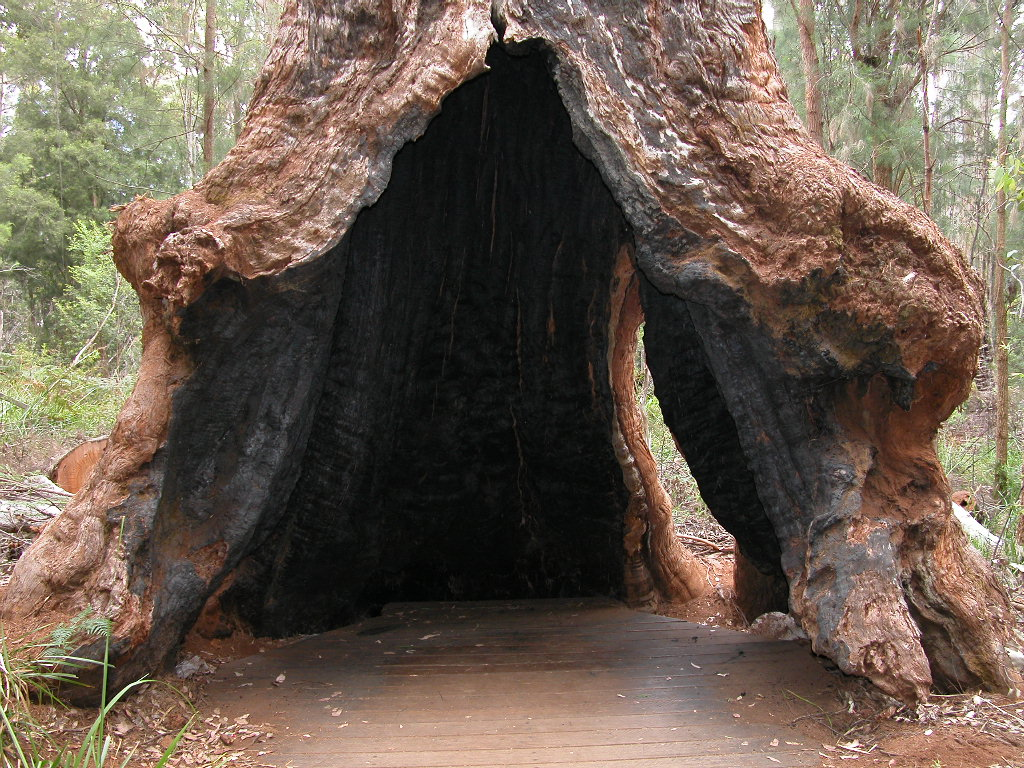 Base of Red Tingle (Eucalyptus jacksonii), buttressed and hollowed out by fire, with a wooden pathway built for tourists